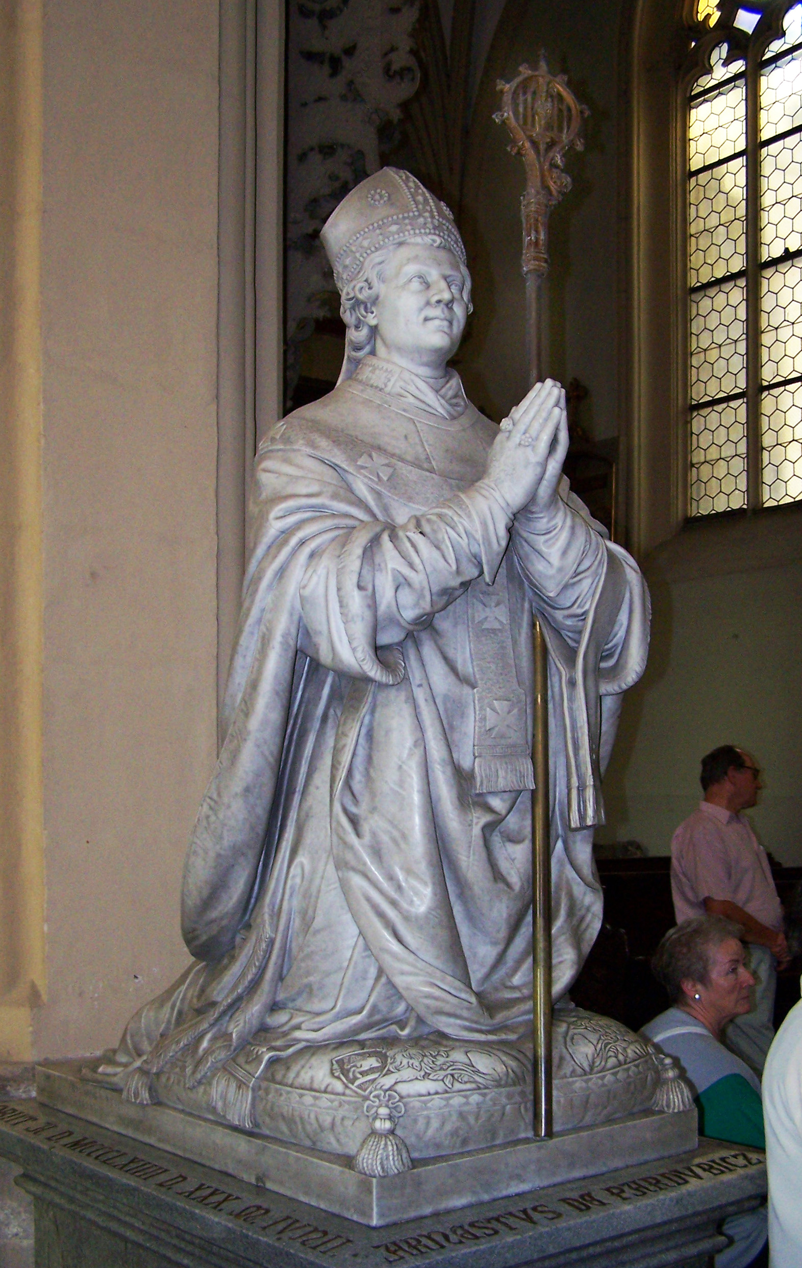 Gravestone from 1870 with a statue of Arnošt z Pardubic, the first archbishop of Prague (from 1344). The statue is located in the church of Assumption of Our Lady in Kłodzko (Poland).